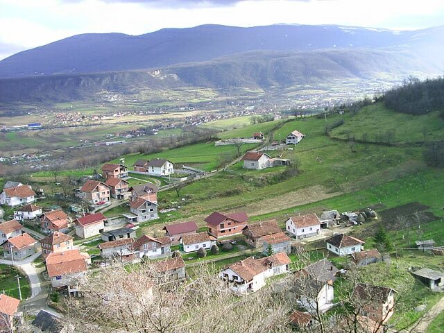 Aerial view of the Una River valley with Gola Plječivica mountain in the background, BiH